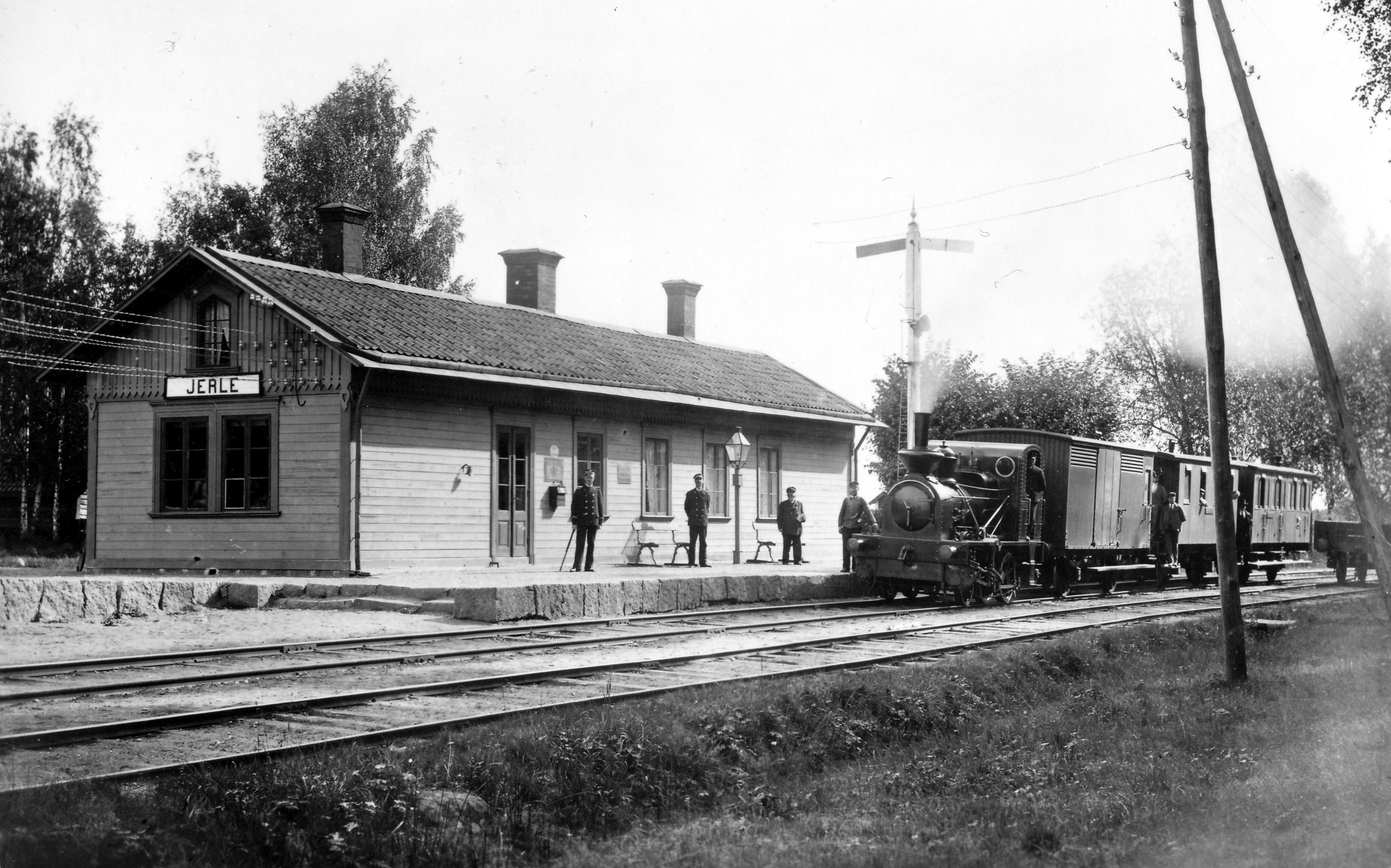 Järle railway station around 1900. Locomotive no. 7 of NKJ.